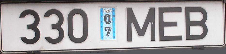 License plate from Estonia until 2004